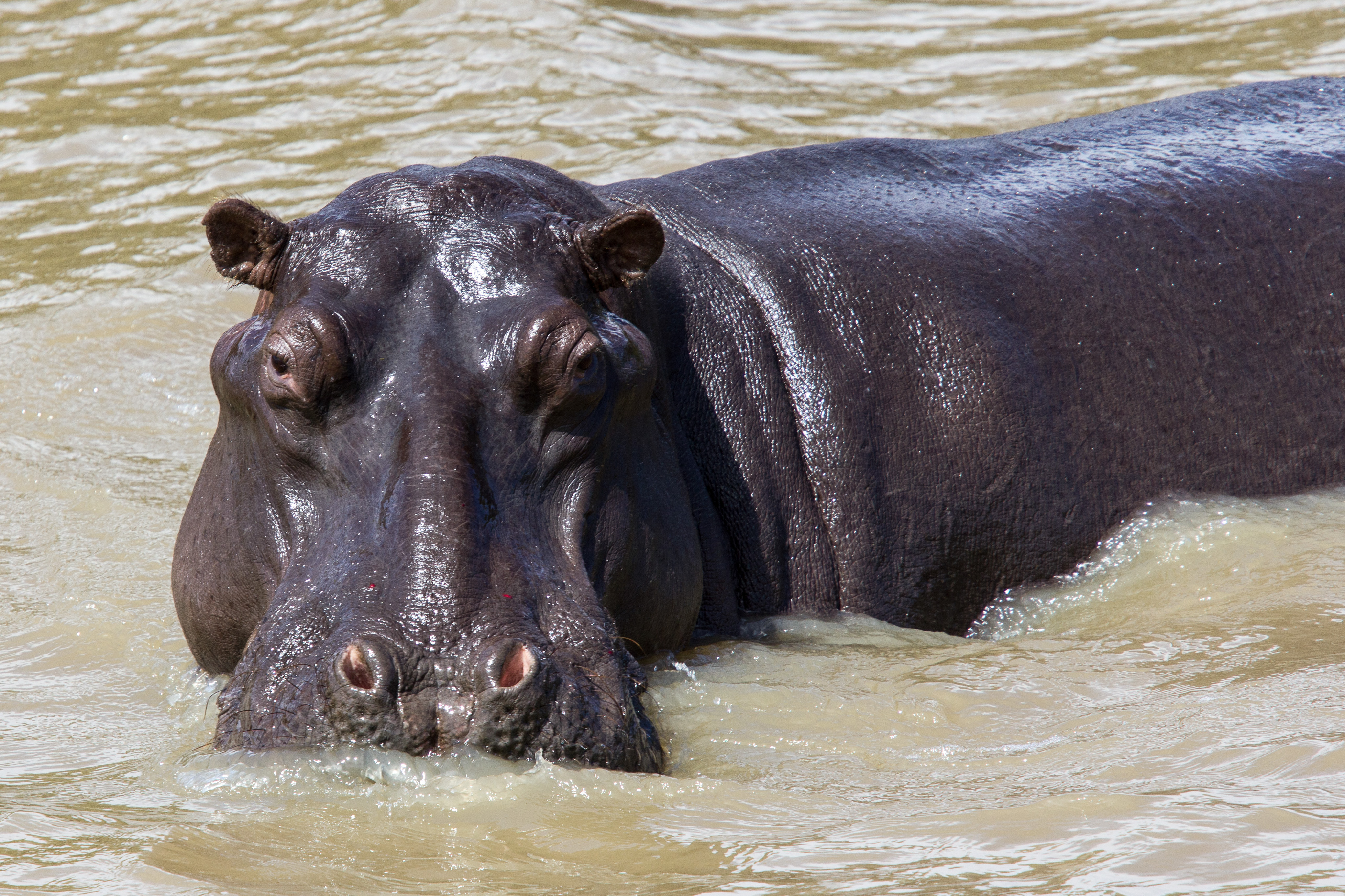 A Hippopotamus in the river near St.Lucia